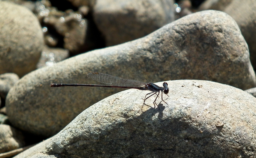 Hajar Wadi Damsel (Arabineura khalidi)